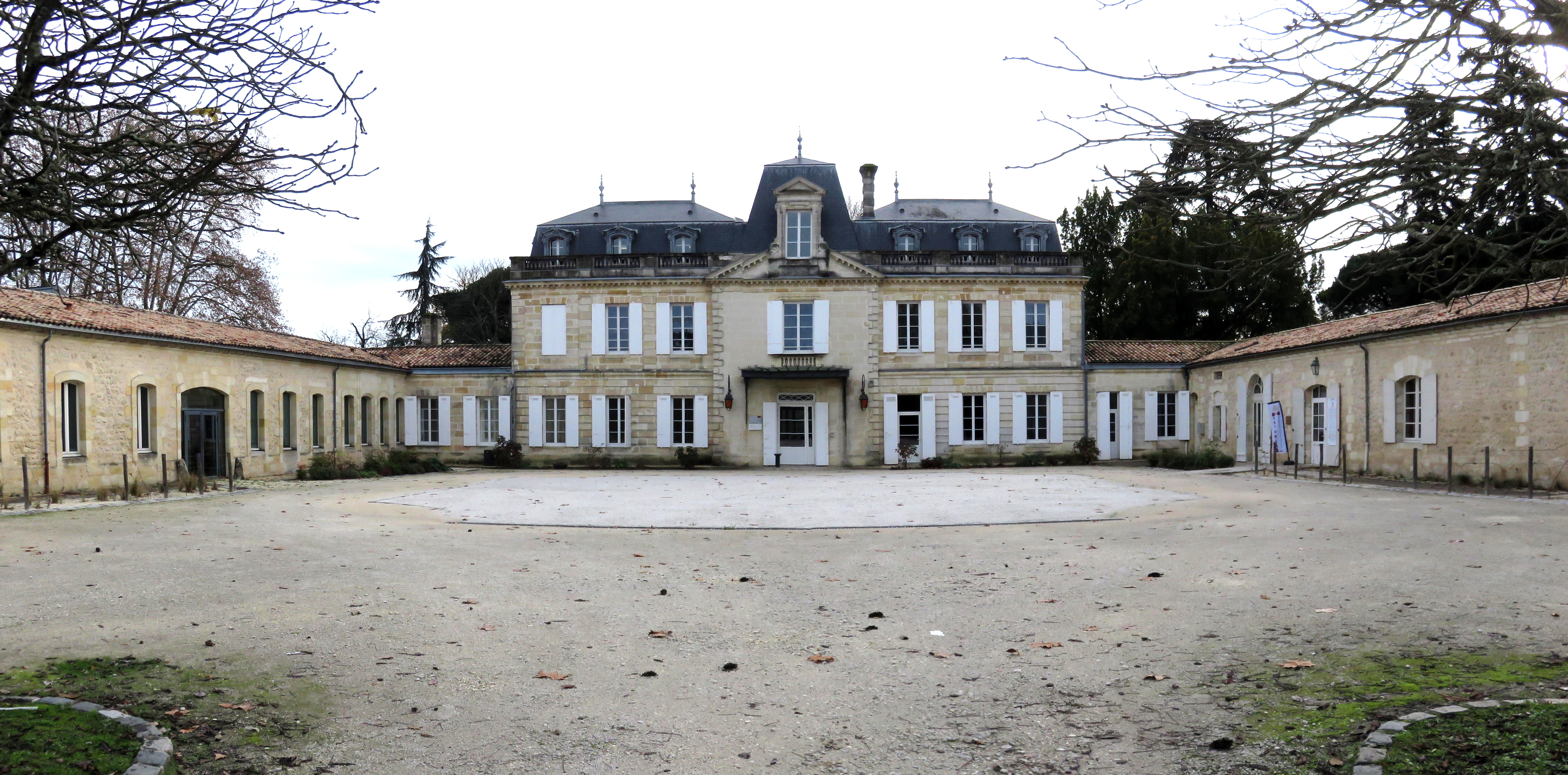 An ethnographic museum nestled in the old cellars of Camponac Castle in Pessac